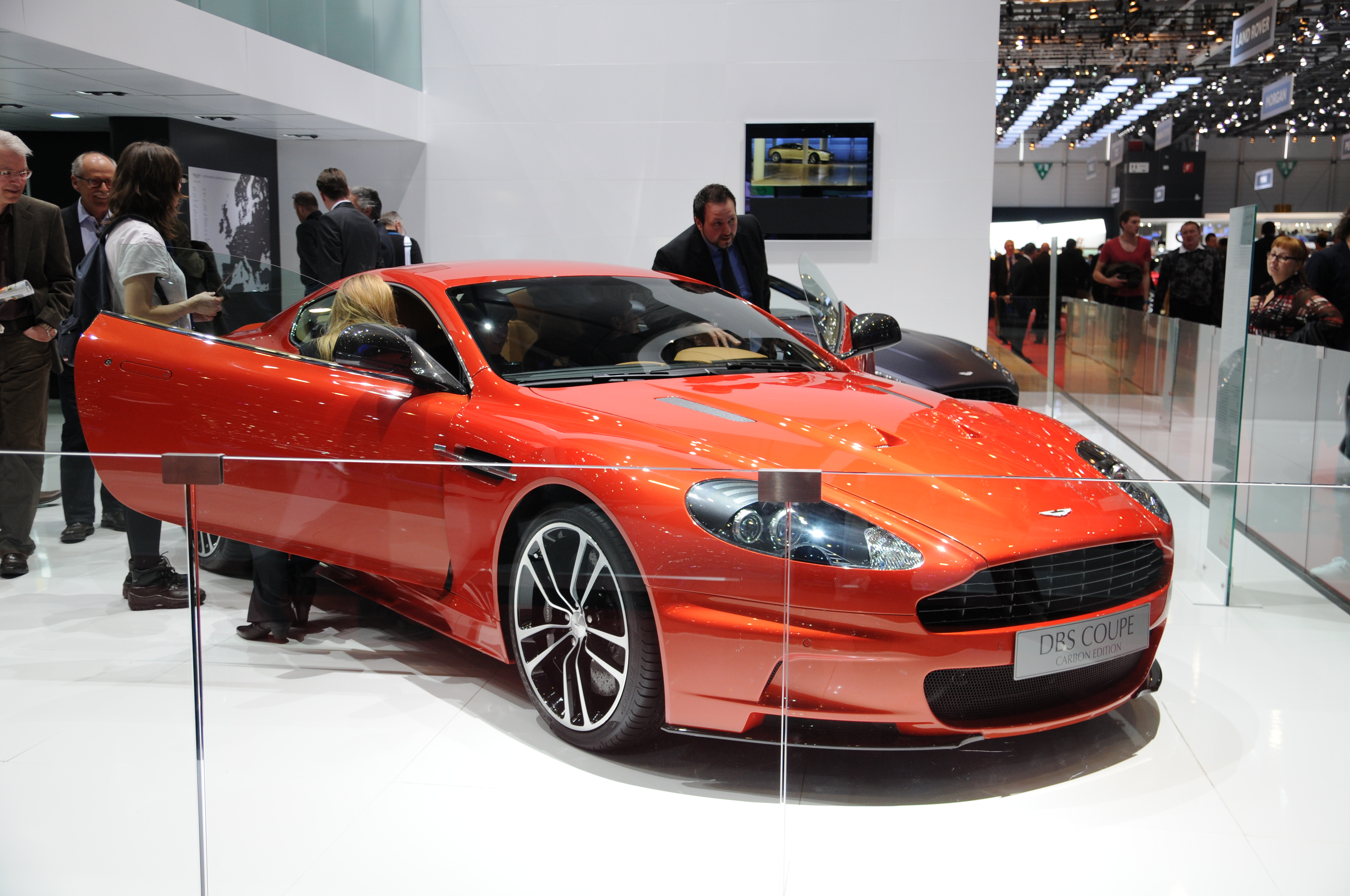 Geneva Motor Show 2012 (photos taken on the second press day)